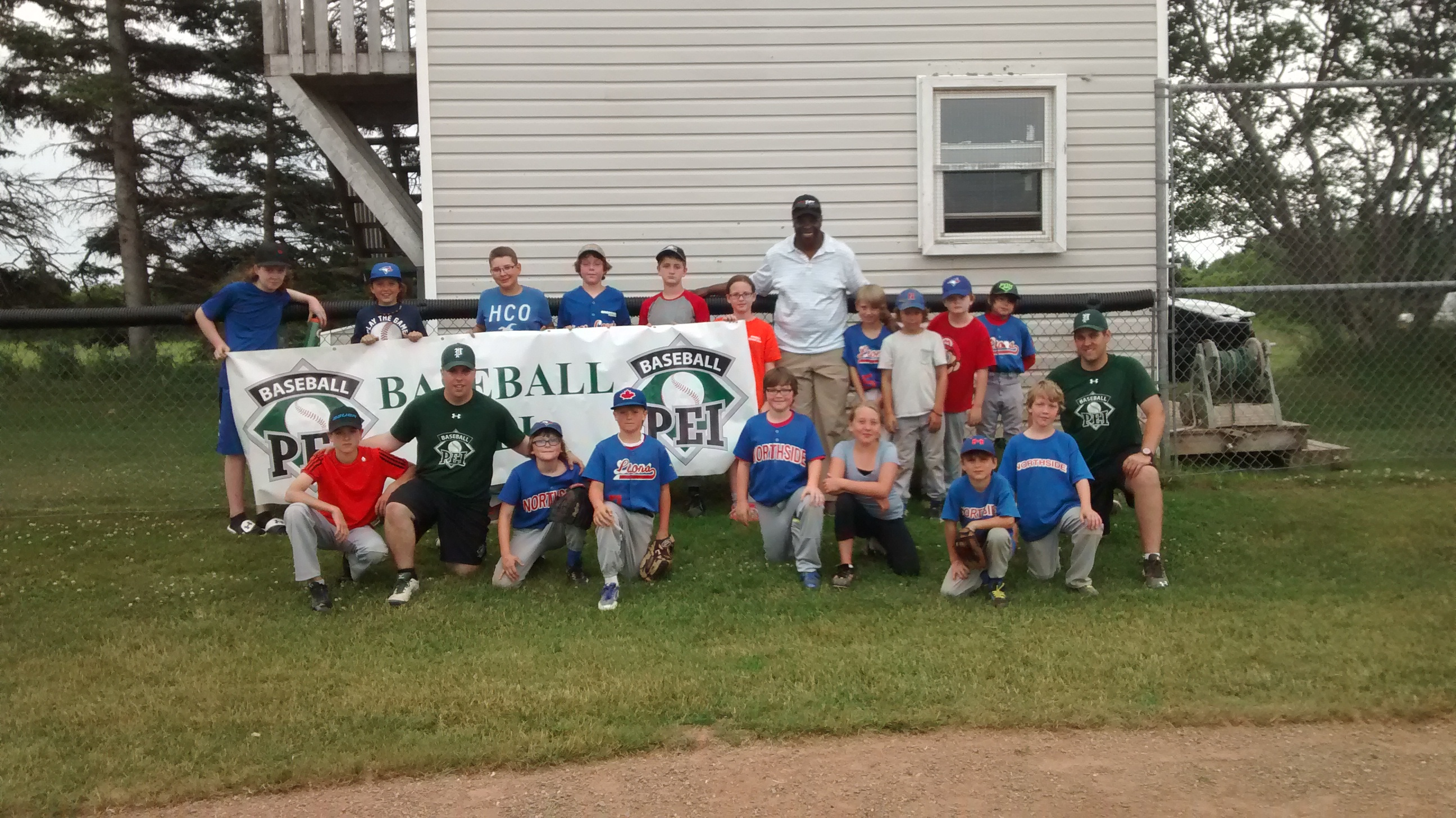 Al Woods